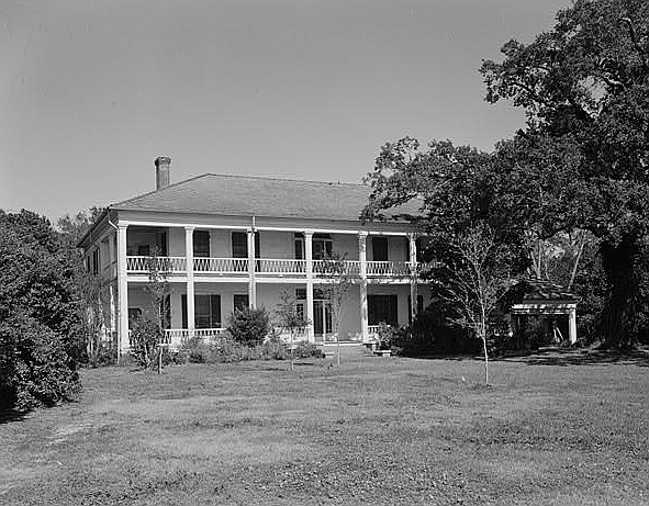 Front view of Milner House (also known as Grass Lawn), Gulfport, Harrison County, Mississippi, USA. Constructed in 1836 and added to National Register of Historic Places (NRHP) 1972-07-31. The house was destroyed during Hurricane Katrina and was delisted from NRHP 2008-07-16. Image courtesy of Historic American Buildings Survey—HABS.